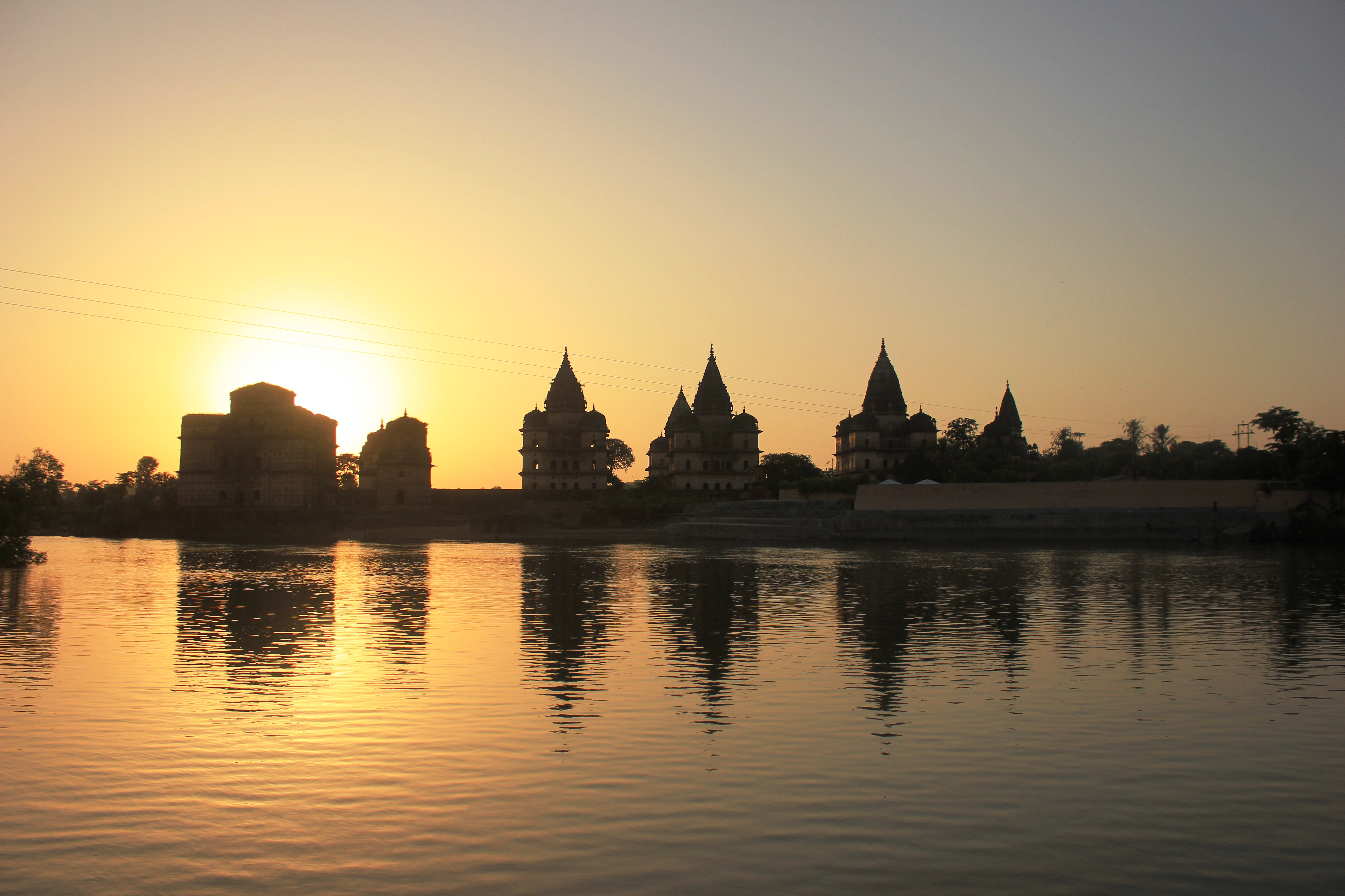 Sunset behind the majestic ruins of Orccha as seen from Betwa river.